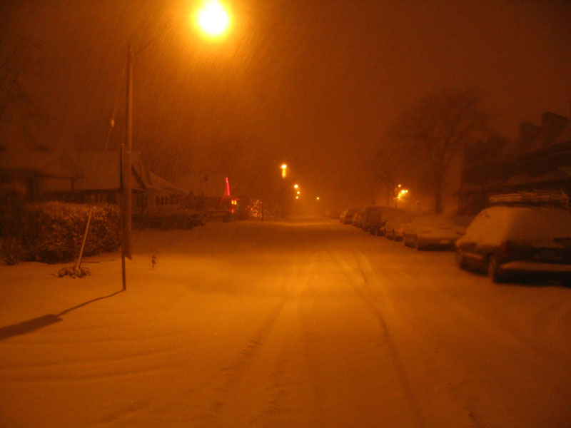 December snowstorm, taken in west Windsor, on Bloomfield Road (a residential street).